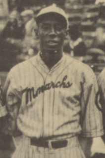 José Méndez at the 1924 Colored World Series. LOC states here that there are no restrictions on use of this image, therefore it is PD. This file has been extracted from another file: 1924 Negro League World Series.jpg